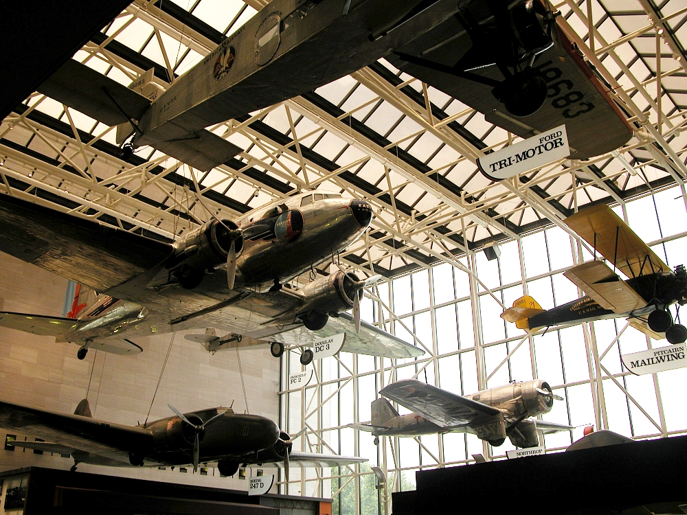 National Air and Space Museum, exhibition, Washington D.C., USA